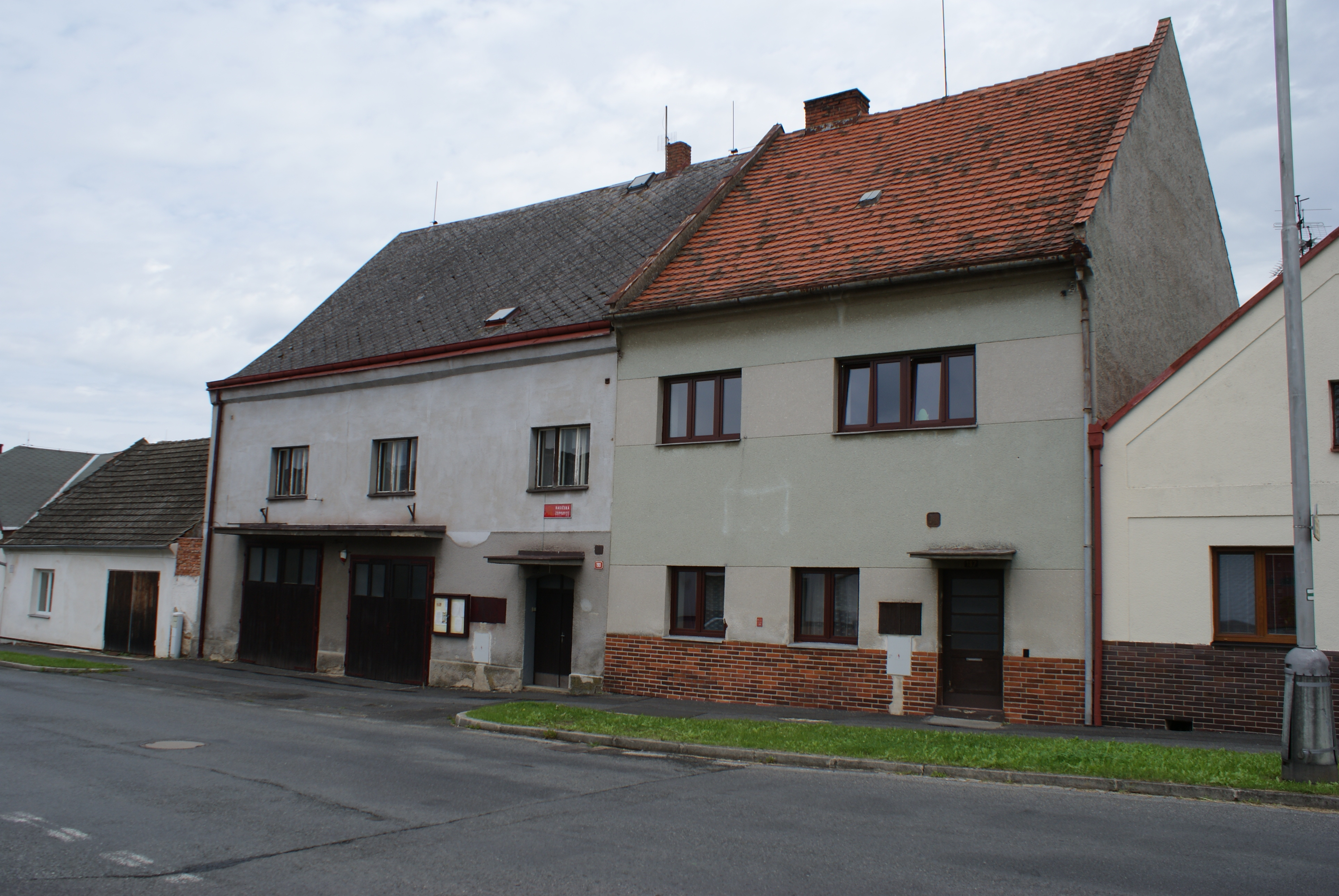 Former synagogue in Janovice nad Úhlavou, Klatovy district, Czech Republic. Česky: Bývalá synagoga v Janovicích nad Úhlavou okr. Klatovy